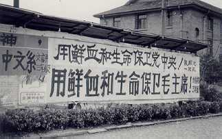 During the Cultural Revolution, a political slogan by Red Guards on the campus of Fudan University, Shanghai, China....God, Department of Chinese language and Literature (of Fudan University).Defend Central Committee with (our) blood and life!Defend Chairman Mao with (our) blood and life!